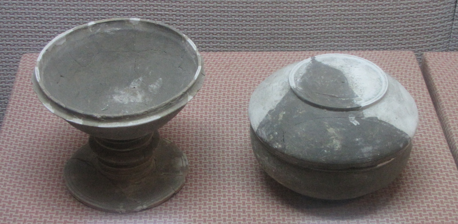 Pottery 3200 years ago from Huangtulun (Uong-tu-lung) site in Minhou, Fujian, China. Fuzhou Museum.